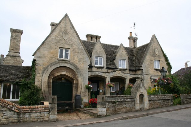 The Forge, Crown Lane, Tinwell, Rutland